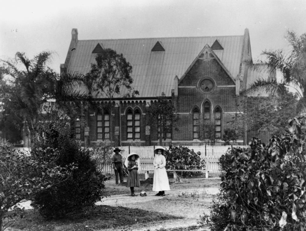 St. Andrews Presbyterian Church in Rockhampton circa 1912